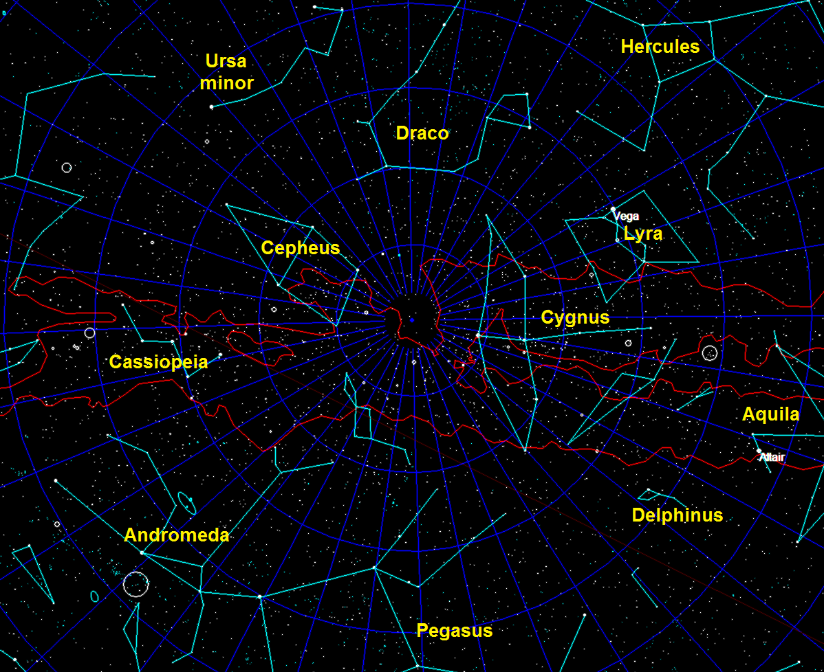 Northern polar sky as viewed from the planet Mars